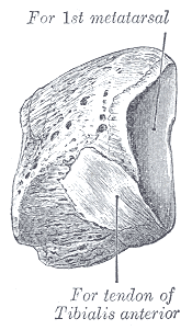 FIG. 278– The left first cuneiform. Antero-medial view.